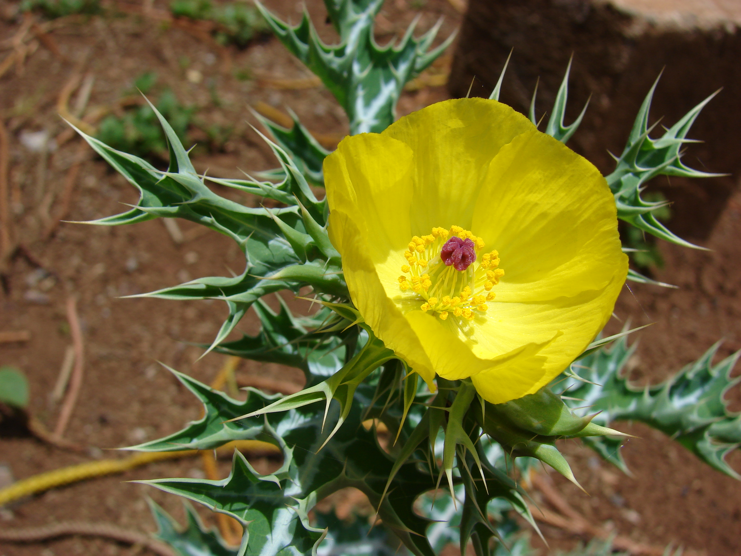 Argemone mexicana (flowers and leaves). Location: Maui, Makawao